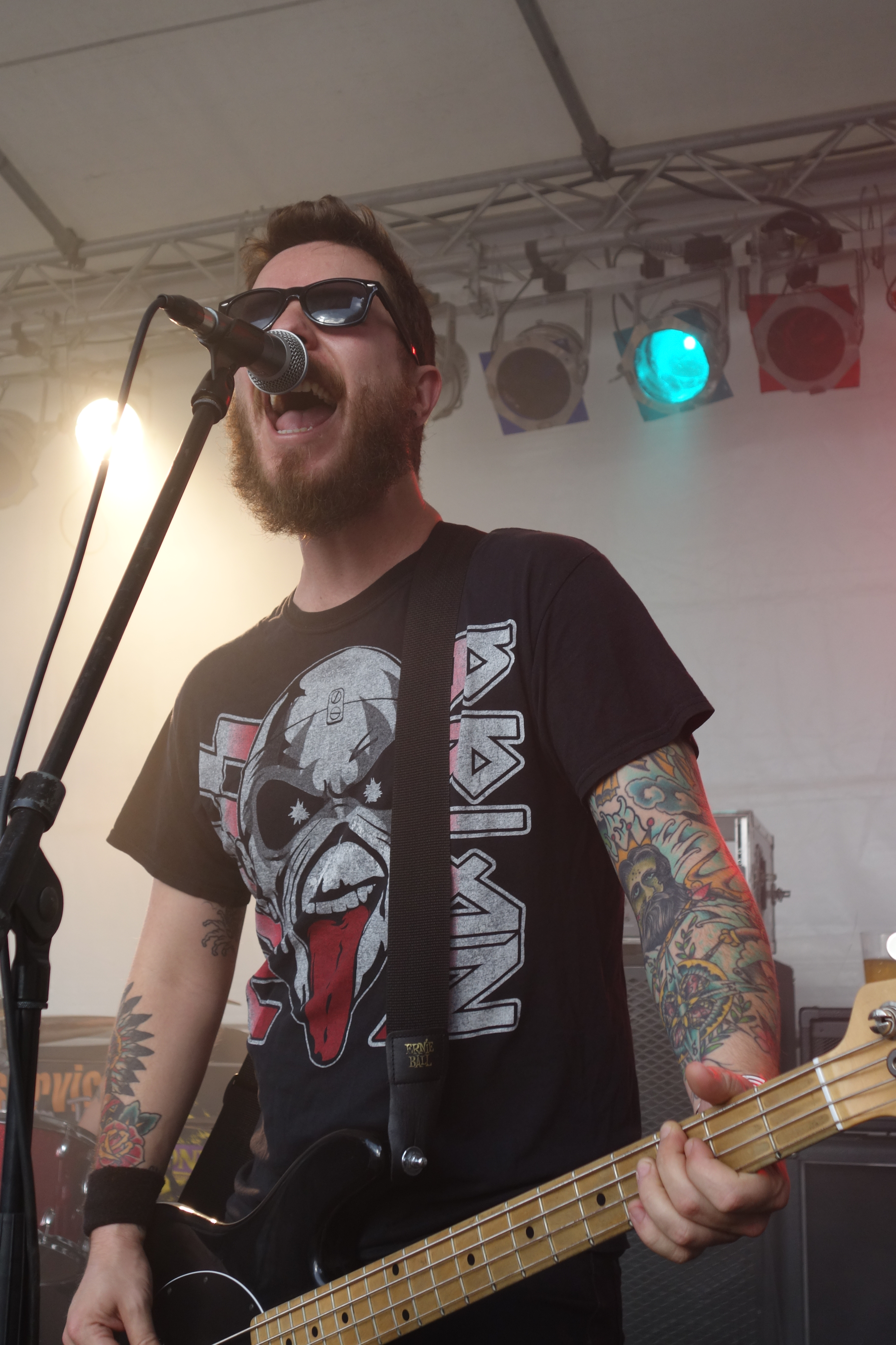 Mike Spero of Authority Zero live at Museumsuferfest Frankfurt 28th August 2016